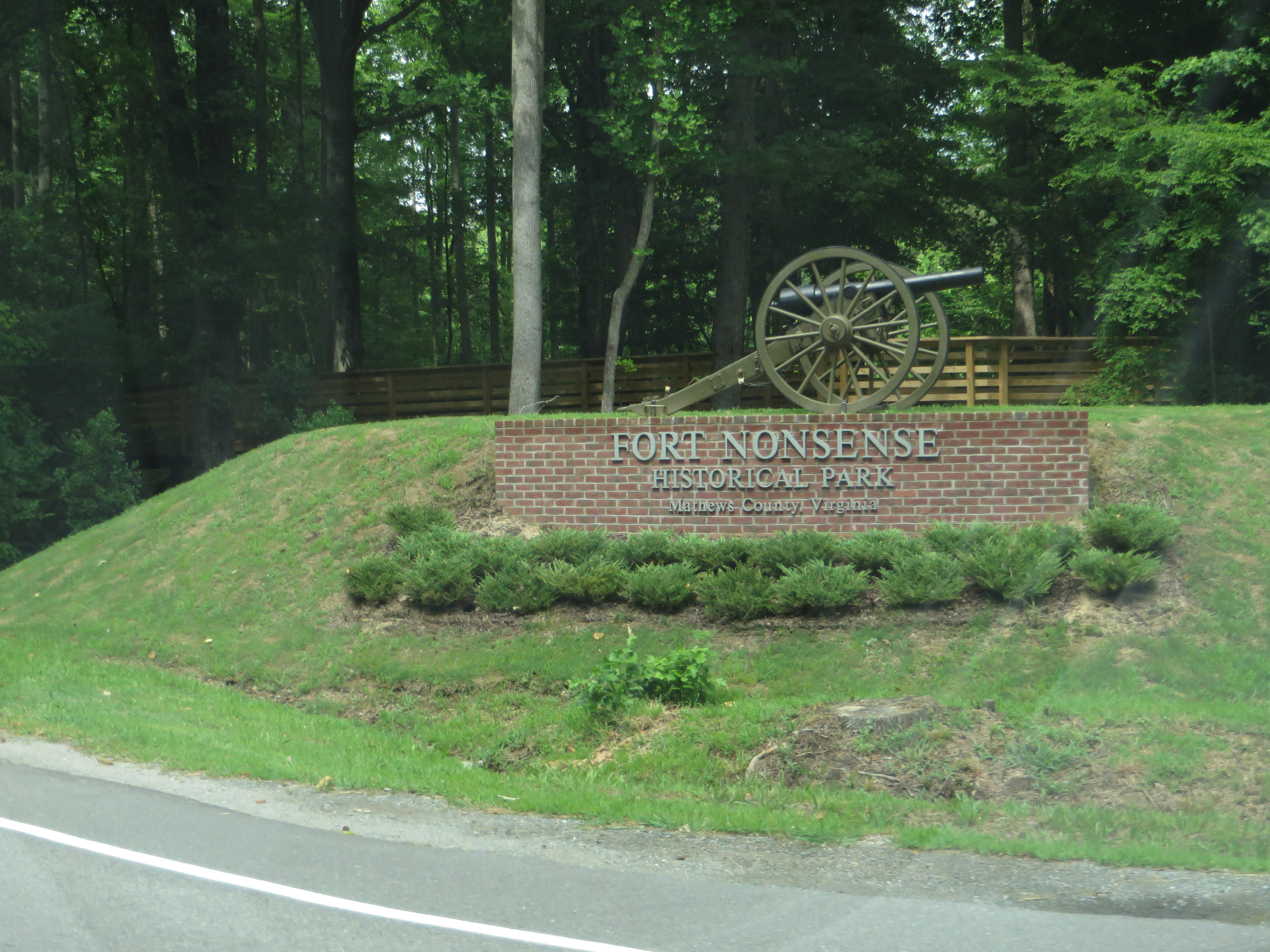 Fort Nonsense is an unincorporated community in Mathews County, Virginia, United States. Fort Nonsense is located at the junction of Virginia Route 3 and Virginia Route 14 5.5 miles (8.9 km) northeast of Gloucester Courthouse.